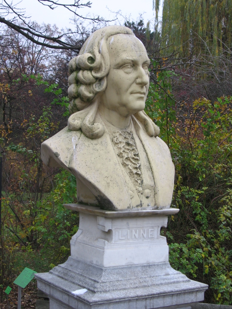 Wrocław, Poland Botanic Garden - bust of Carolus Linnaeus (1707-1778) sculpted and presented by professor of Warsaw Academy of Fine Arts, Bohdan Chmielewski November 2000